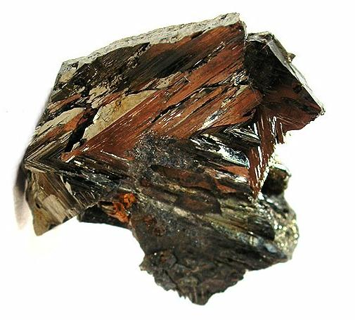 Cubanite Locality: Henderson No. 2 mine, Chibougamau, Nord-du-Québec, Québec, Canada (Locality at ) Size: thumbnail, 2 x 1.8 x 0.4 cm Cubanite (twinned) An extremely bright, metallic, sharply twinned cubanite crystal from his now-closed mine that has produced the BEST OF SPECIES for the mineral. Complete on both sides, and equally good from either! This is a bright and impressive thumbnail! 2 x 1.8 x 0.4 cm